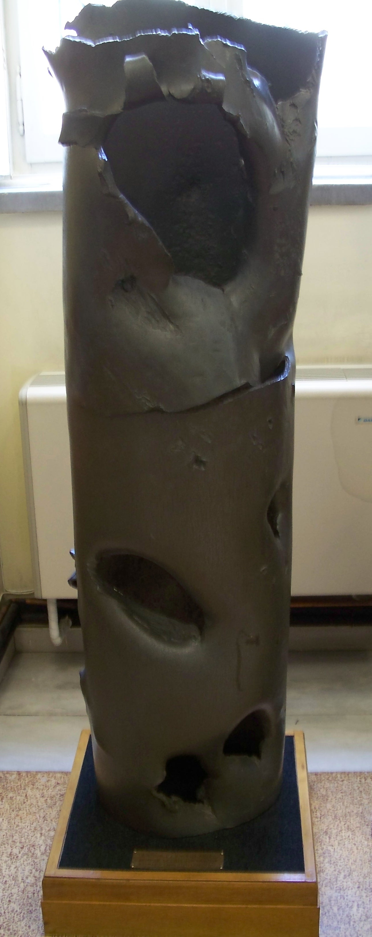 The loader (φορτωτήρας) of battleship Averof (Θωρηκτό Αβέρωφ), having taken shell damage after the Naval battle of Elli, 1912. National Historical Museum, Athens, Greece.